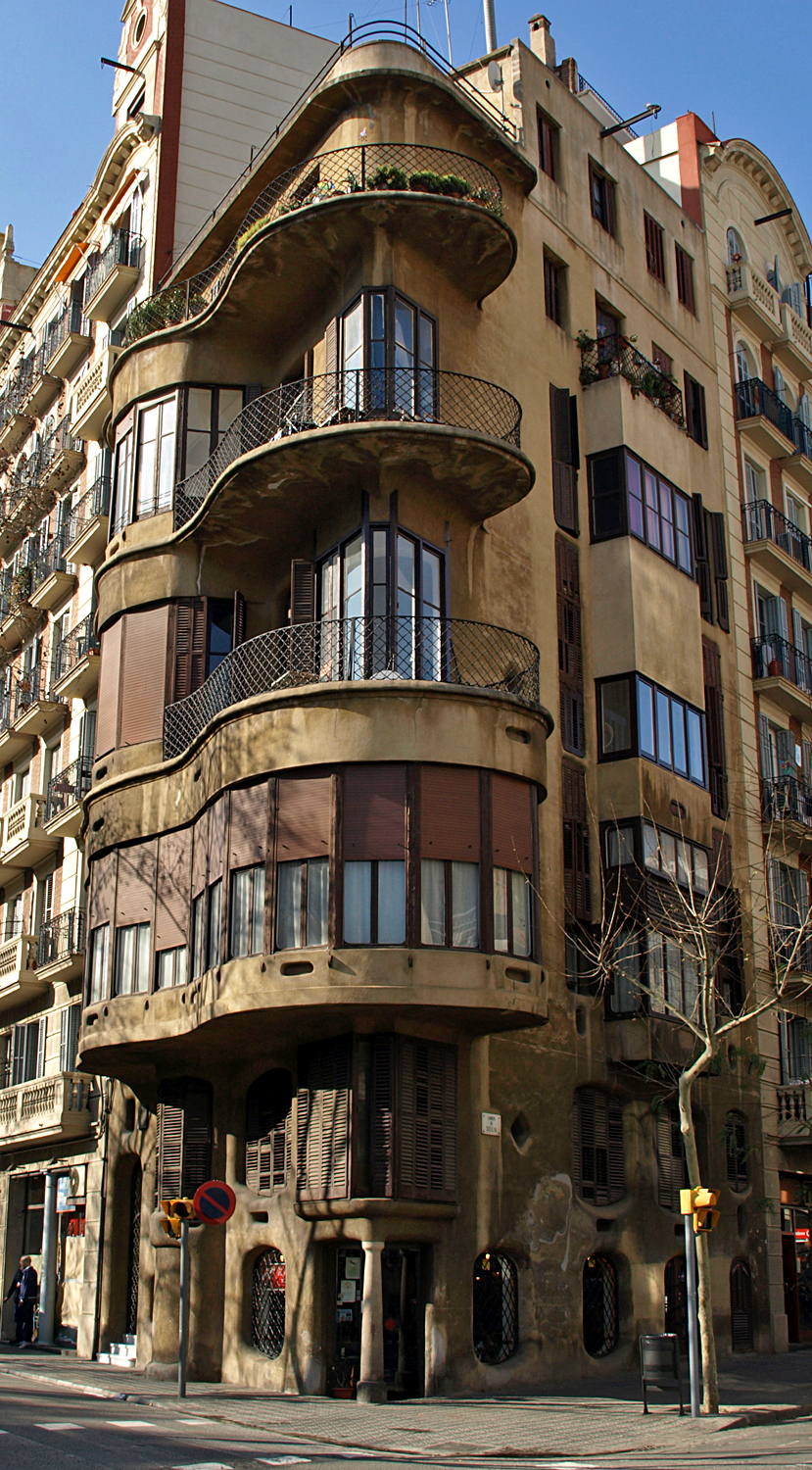 Casa Planells - Catalan Modernisme (Josep Maria Jujol i Gibert, 1923-1924)